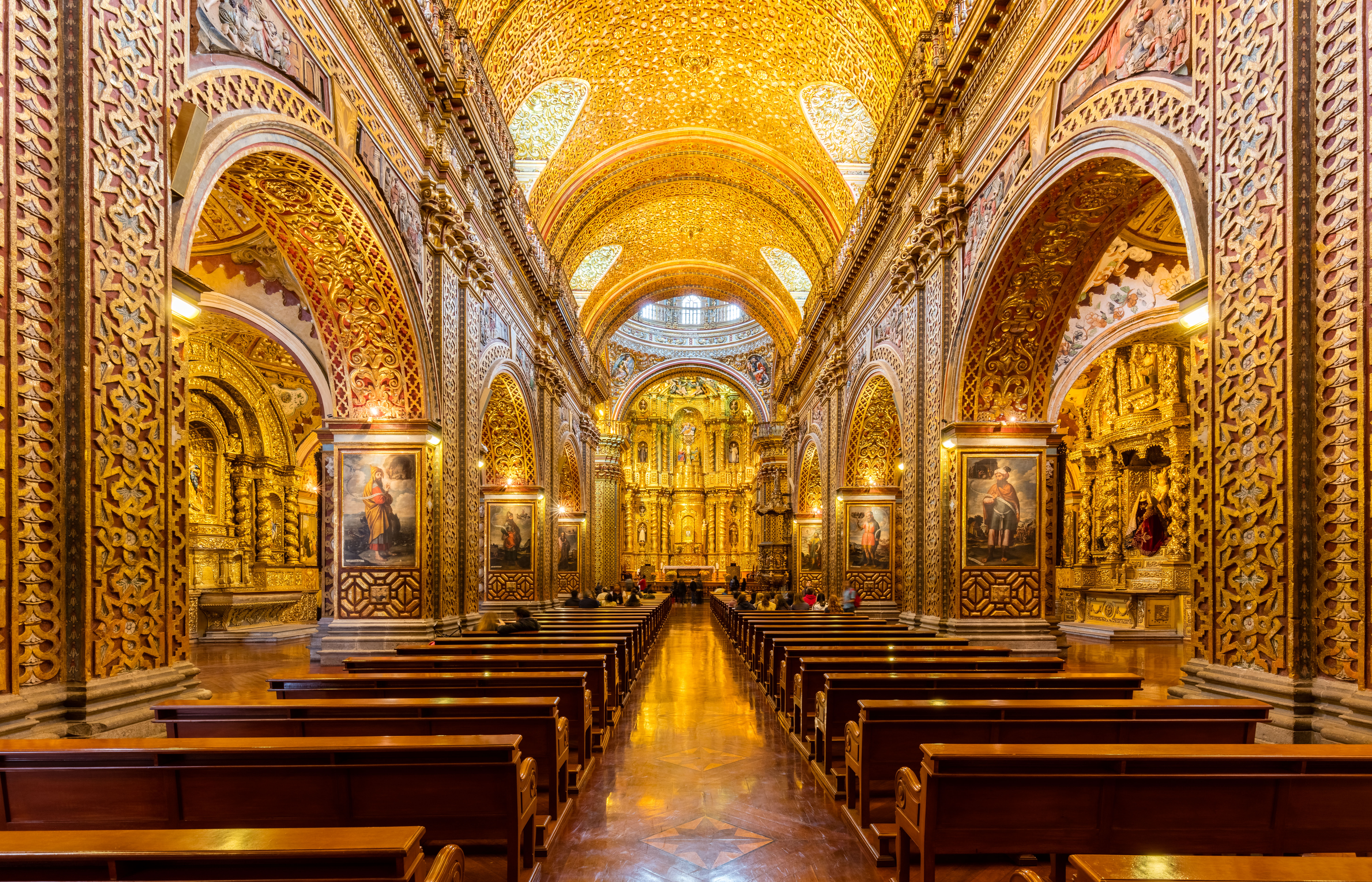 Main nave of the Church of the Society of Jesus (La Iglesia de la Compañía de Jesús), a Jesuit church in Quito, Ecuador. The exterior doesn't give an idea of the beauty of the interior, with a large central nave, which is profusely decorated with gold leaf, gilded plaster and wood carvings, making of it the most ornate church in Quito. The temple is one of the most significant works of Spanish Baroque architecture in America and considered the most beautiful church in Ecuador.